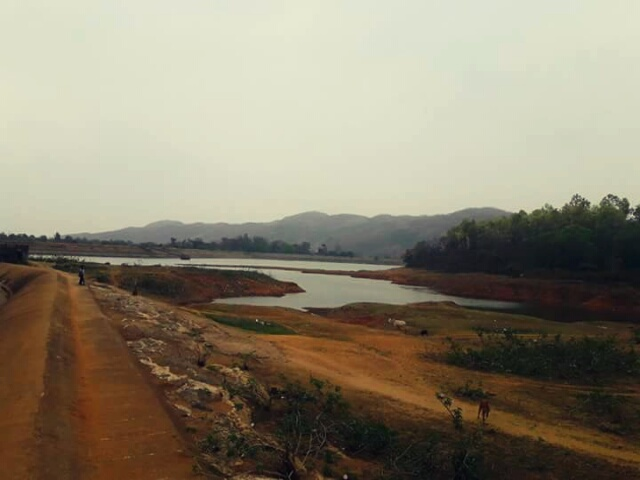 Murguma dam, Jhalda. Purulia